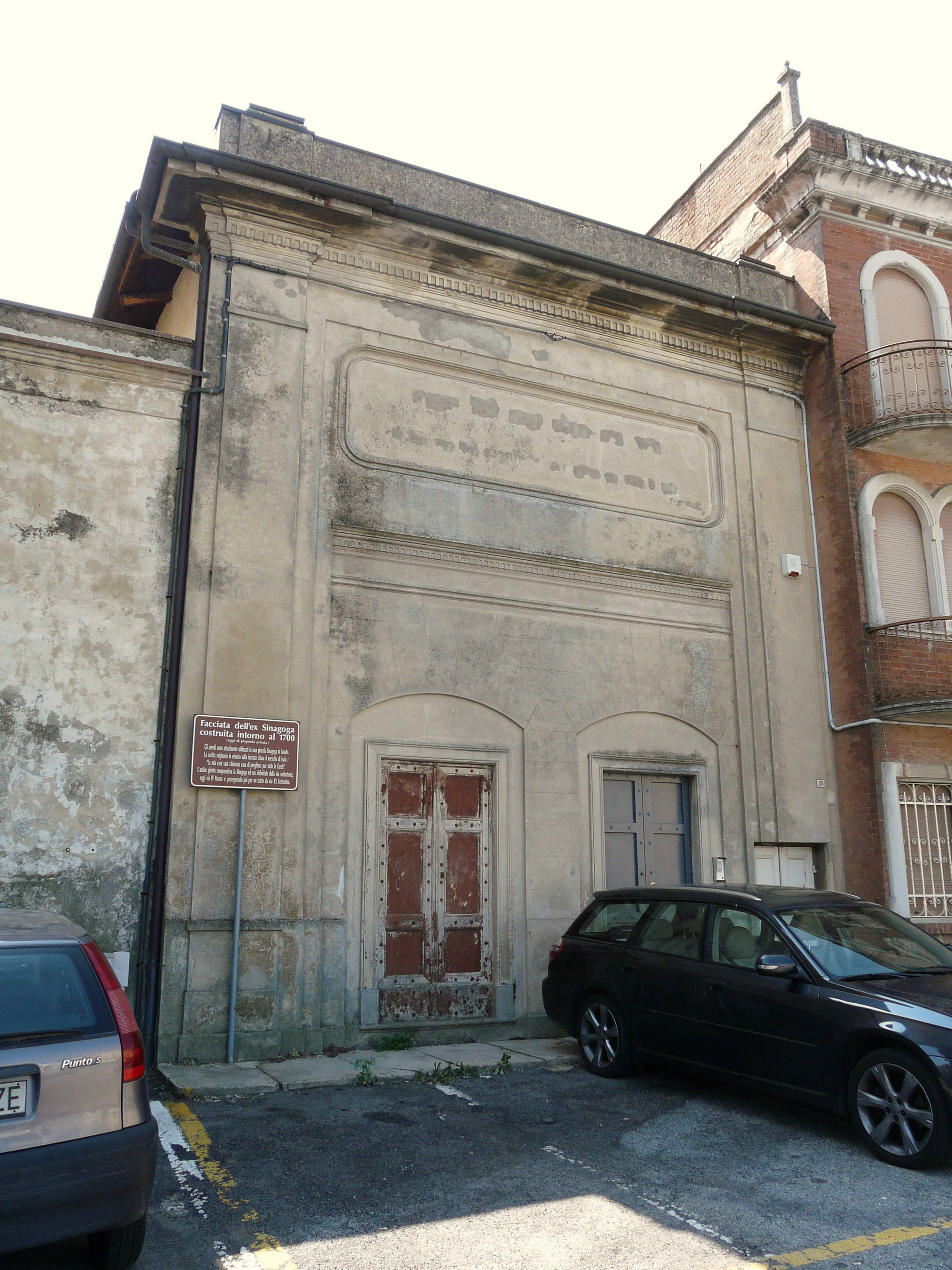 The former synagogue of Moncalvo, Piedmont, Italy. The information board supplies the following information. Façade of the former synagogue built around 1700, which is now in private hands. The furnishings are currently in a small synagogue in Israel. The Hebrew inscription, [with Italian translation below,] now effaced, is from Isaiah: ‘La mia casa sarà chiamata casa di preghiera per tutte le Gente’ / ‘my house will be called a house of prayer for all peoples’. The ancient ghetto included the synagogue and was delimited by the streets below: Via IV Marzo and a stretch of Via XX Settembre.